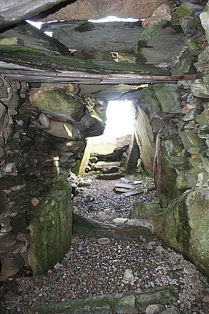 Nether Largie South Cairn This is the interior of the chambered cairn, which is about 6 metres long and 1 to 2 metres wide. Slabs on the floor divide it into four sections. It is thought to be over 3000 years old.